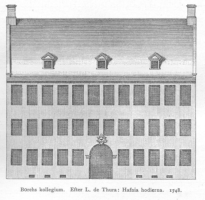 Burchs Kollegium in Lauritz de Thurah's Hafnia hodierna, 1748